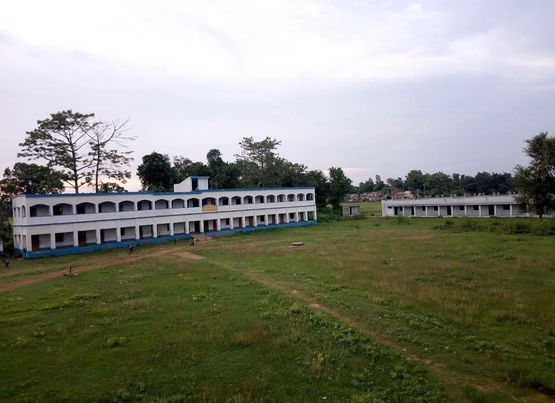 School